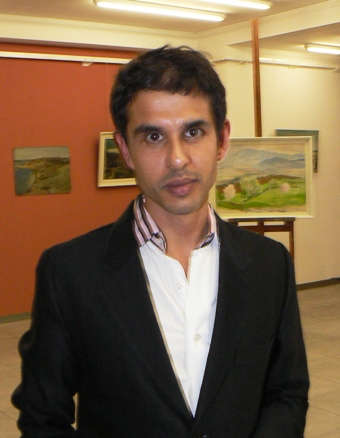 The British writer Rana Dasgupta on the literary reading of his novel "Solo", Sofia, April 27, 2010